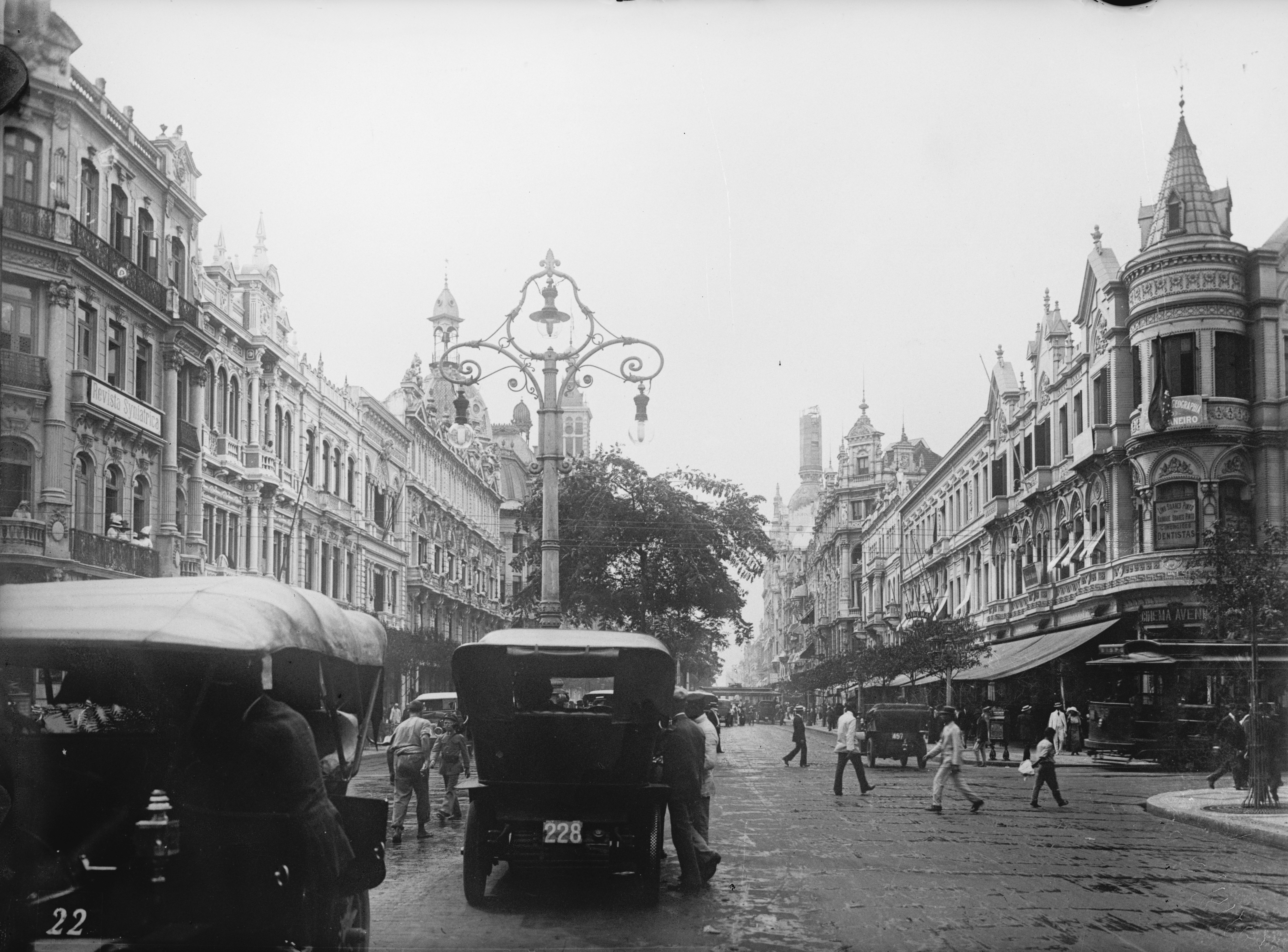 Title: The leading Ave. of Rio de Janeiro Date Created/Published: [between 1909 and 1919] Medium: 1 negative : glass ; 5 x 7 in. or smaller Repository: Library of Congress Prints and Photographs Division Washington, D.C. 20540 USA Collections: National Photo Company Collection